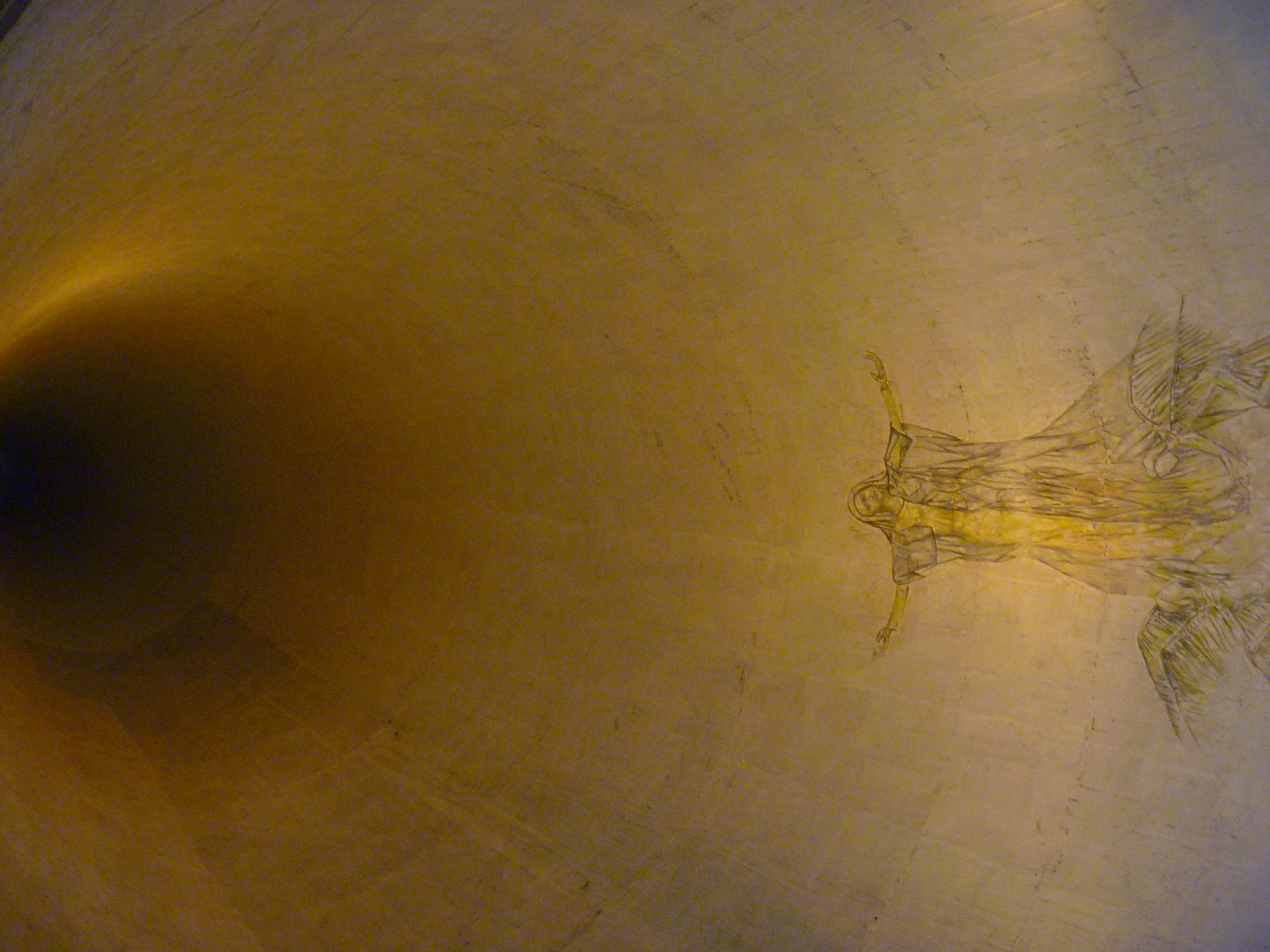 Inside of the Maringa cathedtal